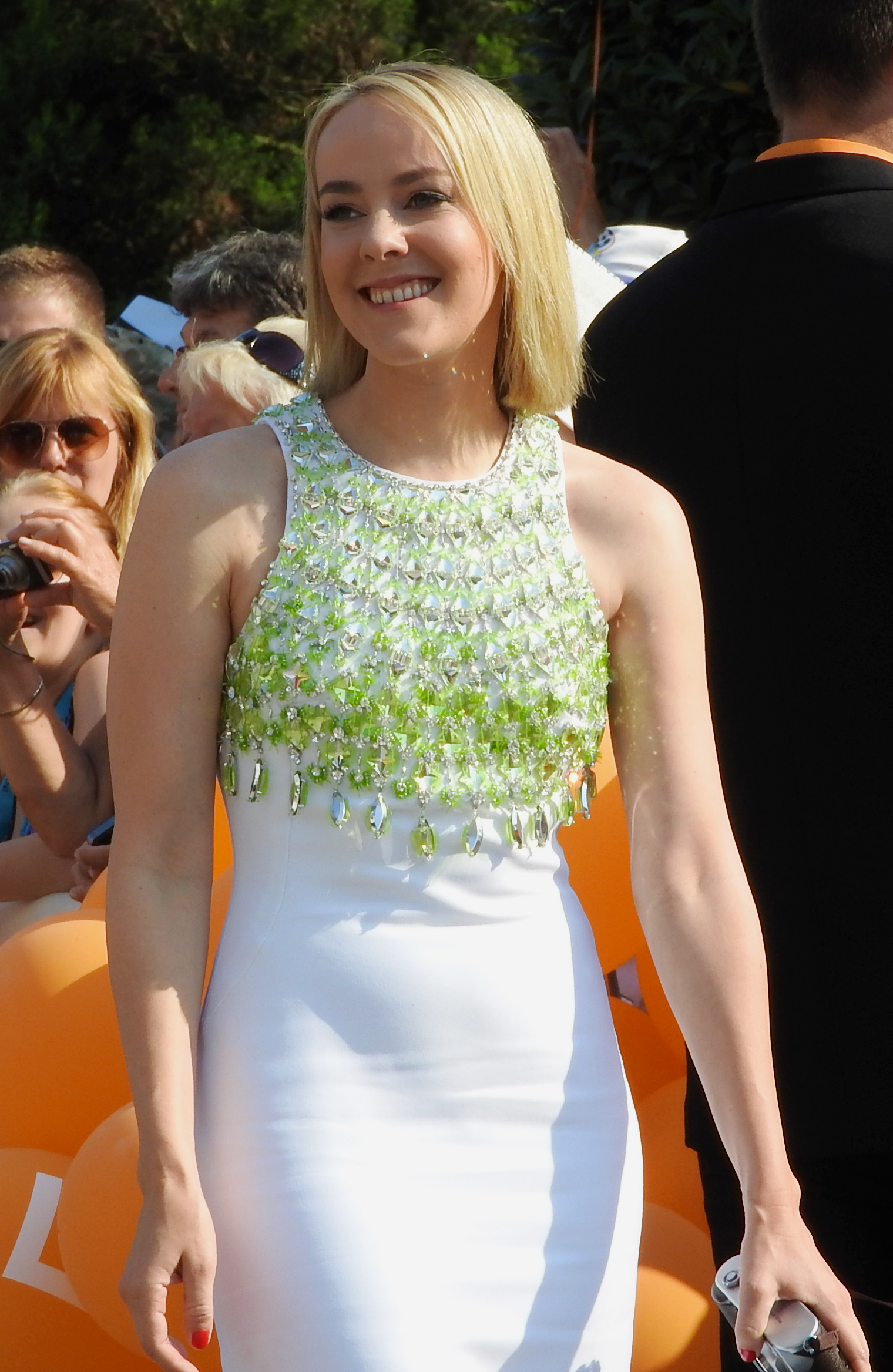 Actress Jena Malone on the red carpet at 50th Karlovy Vary International Film Festival (KVIFF 2015).